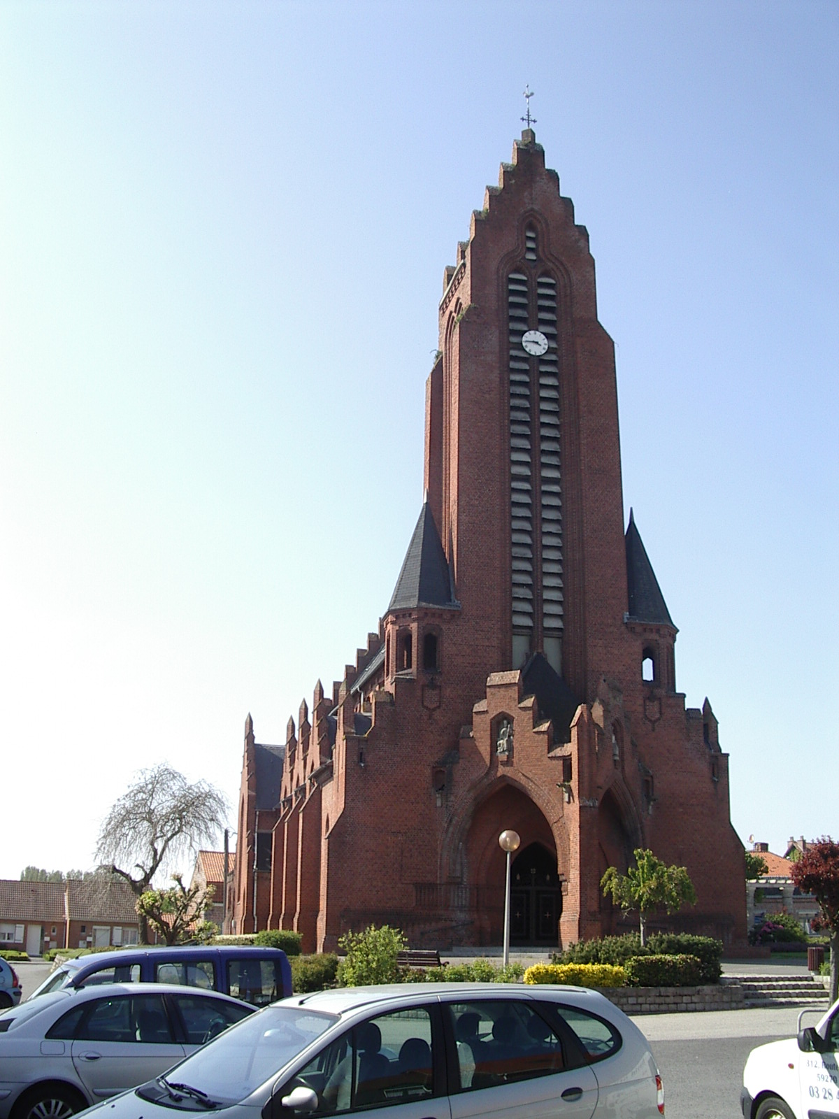 Churche of Merris (59, France)